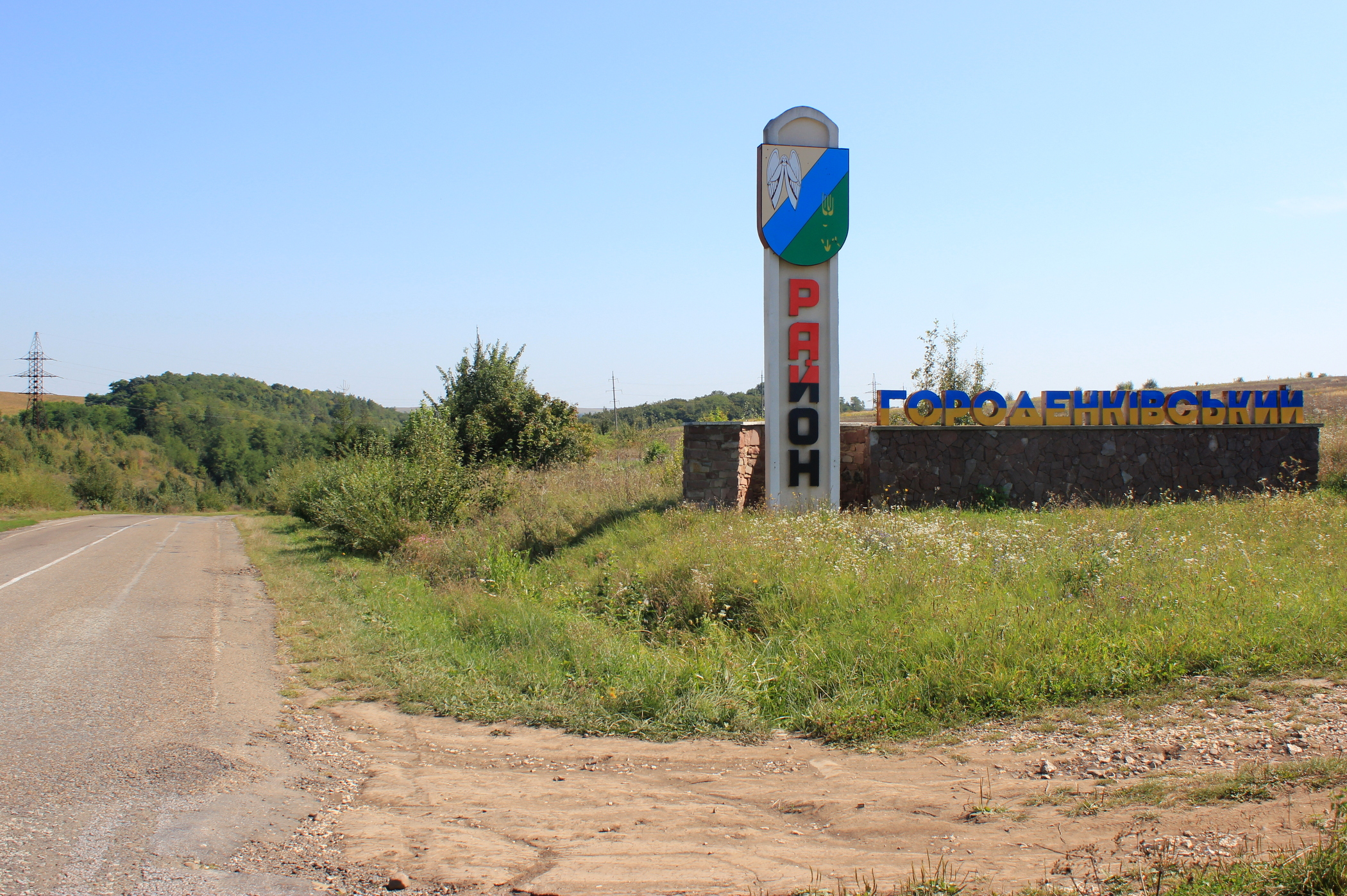 Border of Horodenka Raion, Ivano-Frankivsk oblast, Ukraine.Hornjoserbsce: Hranica ukrainskeho rajona Horodenka.